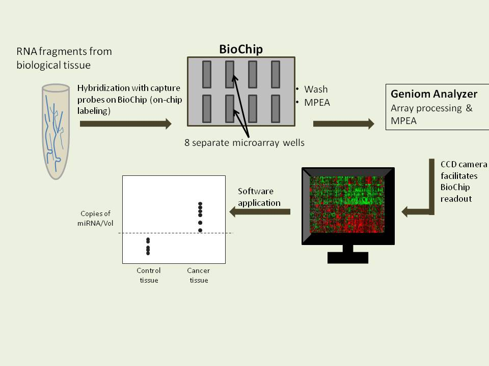 Geniom RT Analyzer for microRNA quantification analysis for biomarkers of disease progression